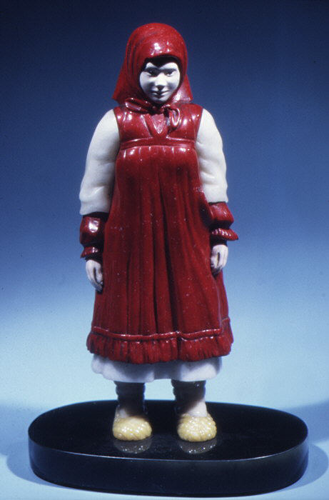 Russian, St. Petersburg; Figure; Lapidary Work